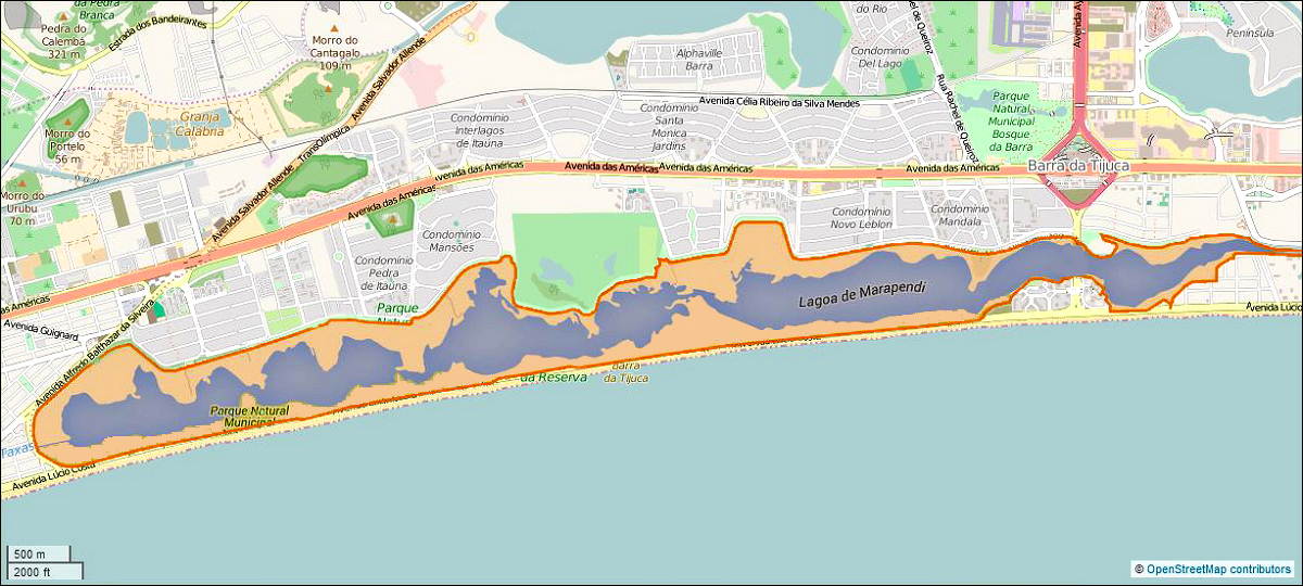 The map shows the approximate perimeter of the largely undeveloped area (inner sanctuary) of the preserve and not its legal boundaries. The outlined area (as of 1 March 2016) permits 10 to 15 commercial tenants.